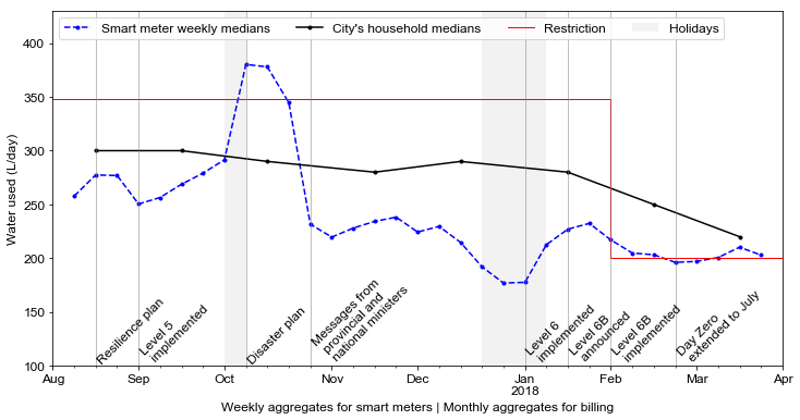 A small sample of smart meter data compared with billing information from the City of Cape Town, showing responses to key events during the DayZero drought. Two main features: (1) The perverse response to the ambiguous Level 5 messaging in September 2017. (2) The substantial reduction following the release of the apocalyptic Disaster Plan in October 2017 Adapted from